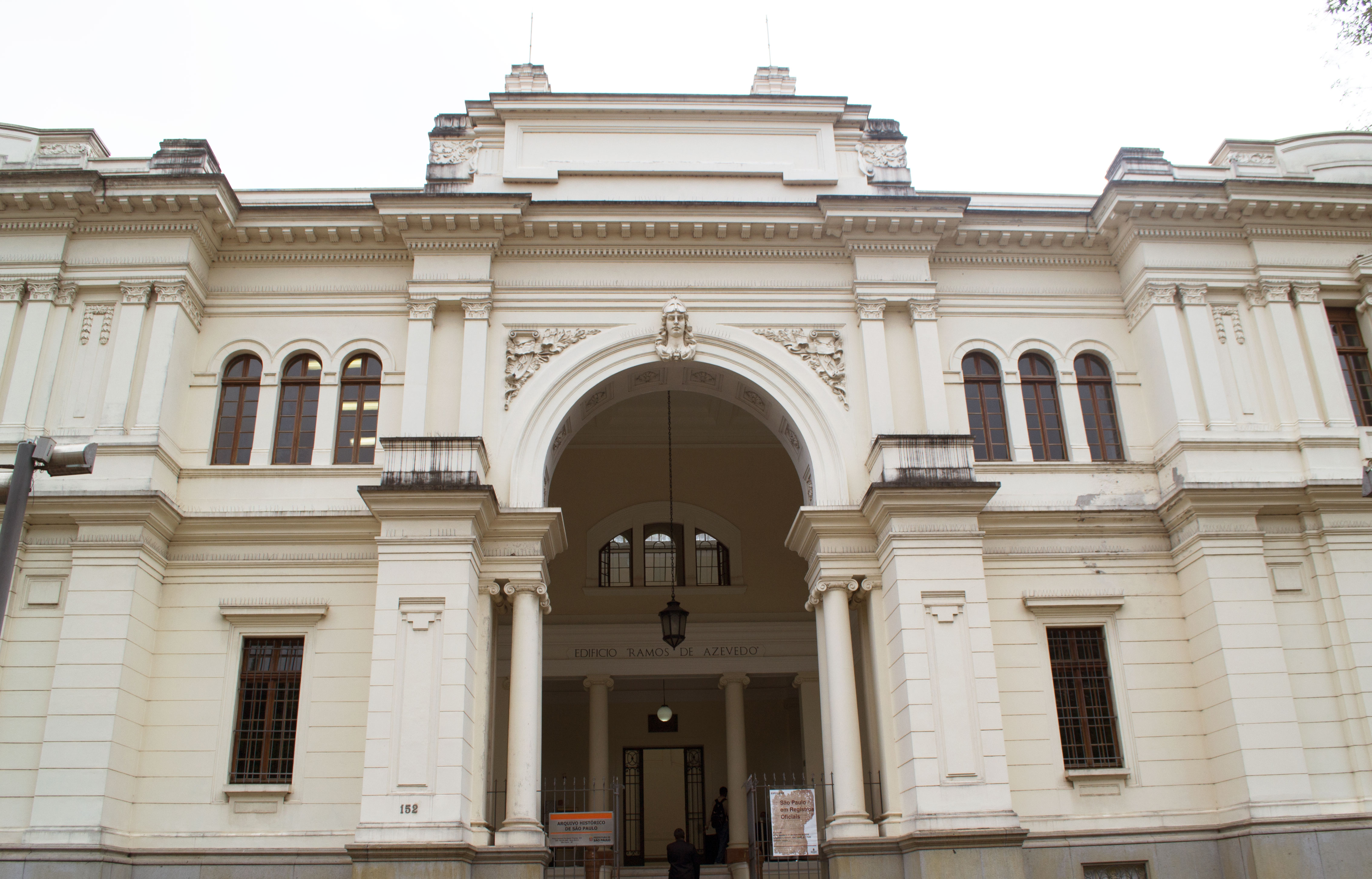 Fachada do Edifício Ramos de Azevedo, antiga Escola Politécnica, atual Arquivo Histórico de São Paulo, São Paulo (SP), Brasil